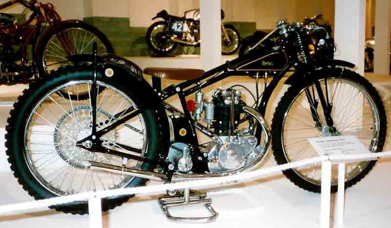 Rudge Speedway 1931